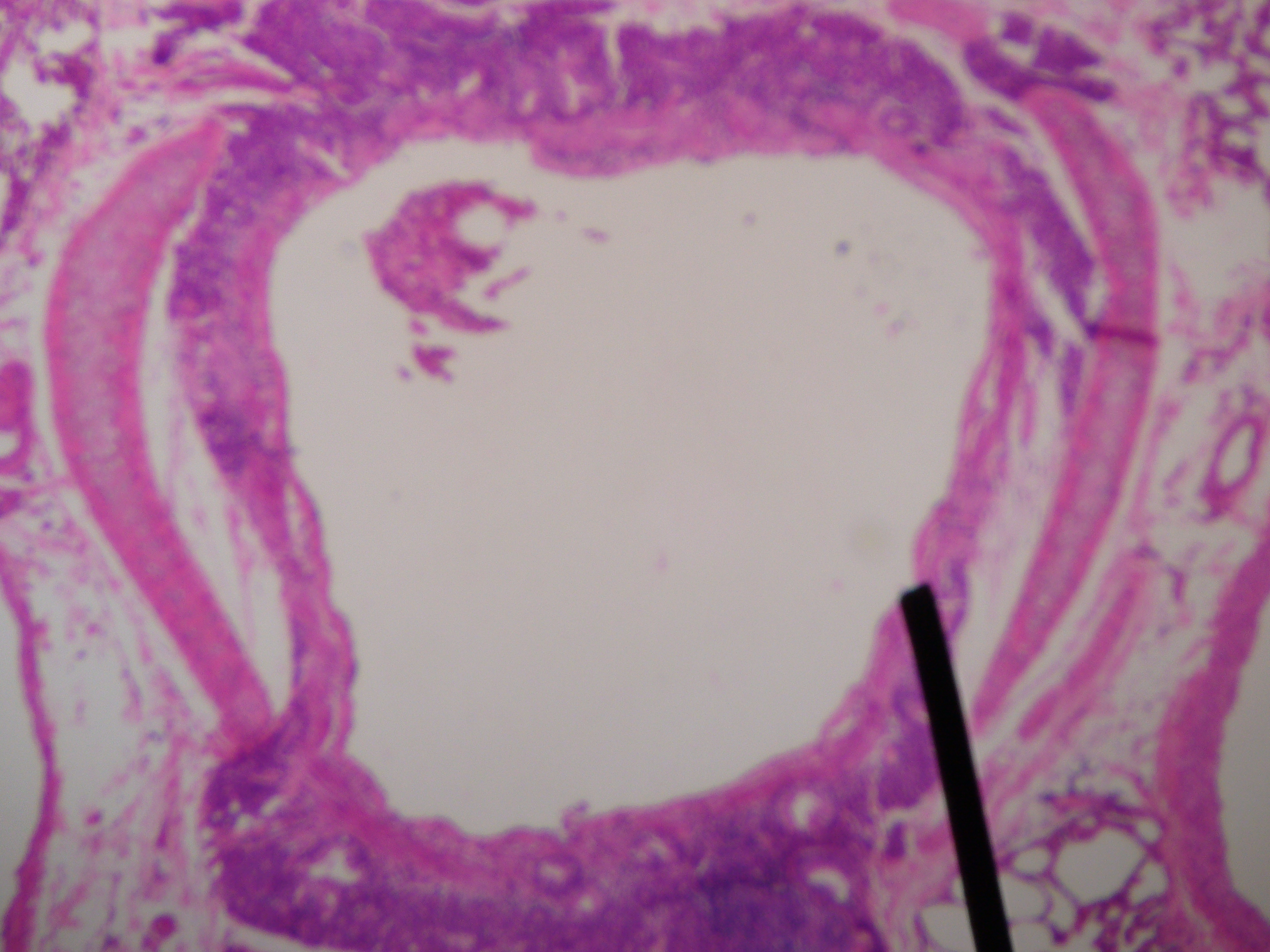 Author's own picture. A digital camera shot through a microscope; with a human cross sectional cut of a secondary bronchus